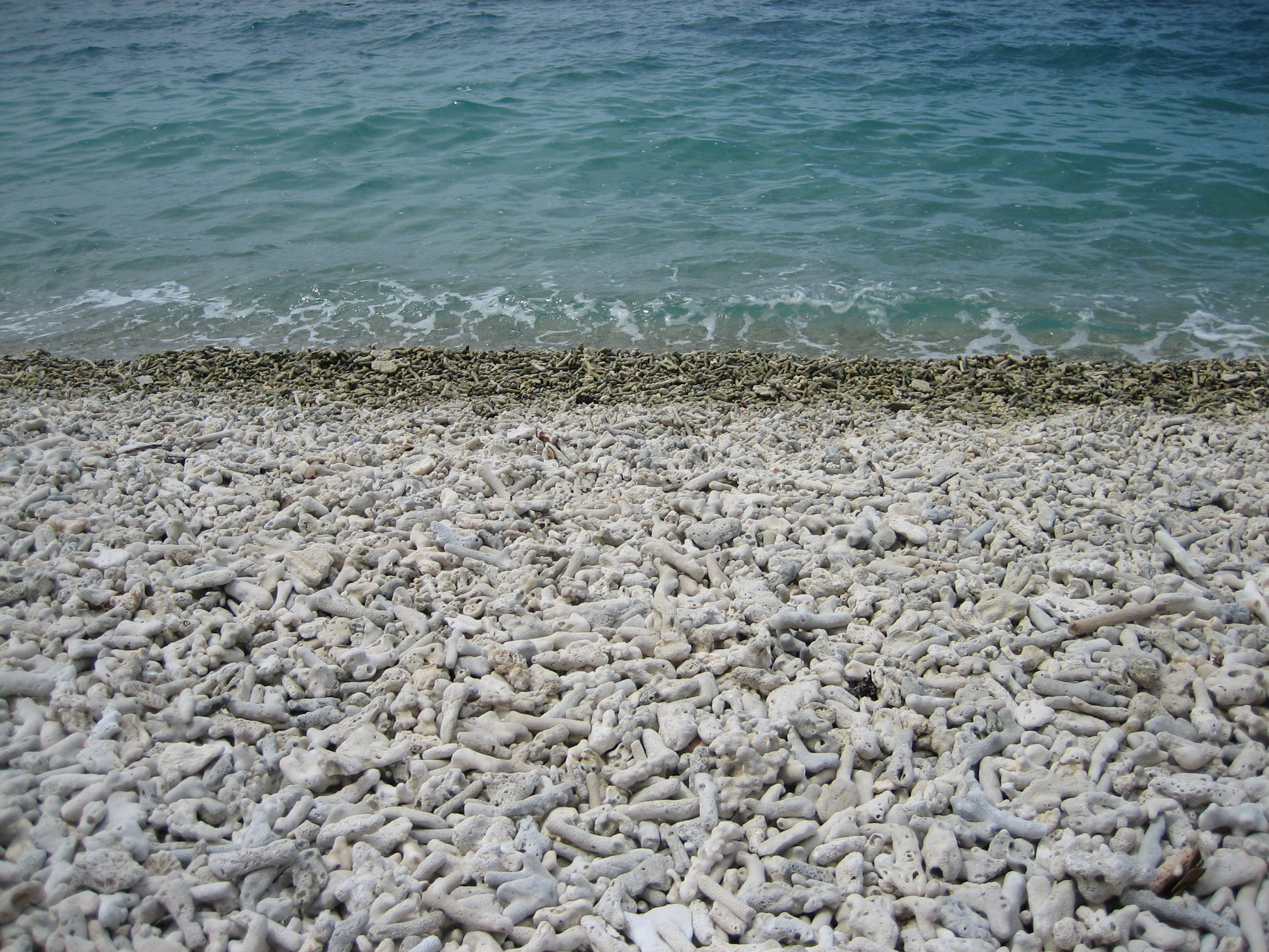 Coral Beach, Fitzroy Island, Queensland, Australia.